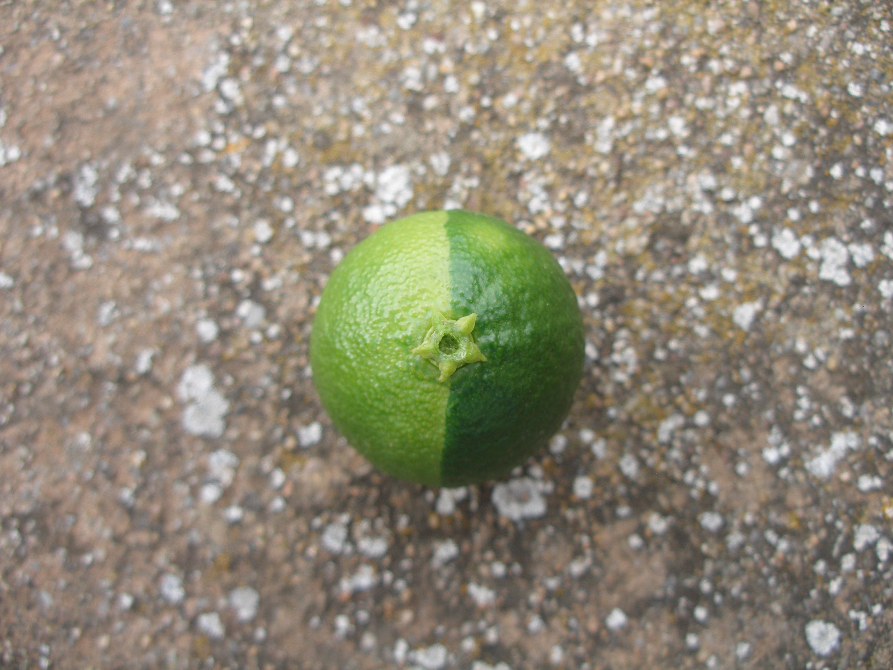 Citric fruit chimera. Mutation.